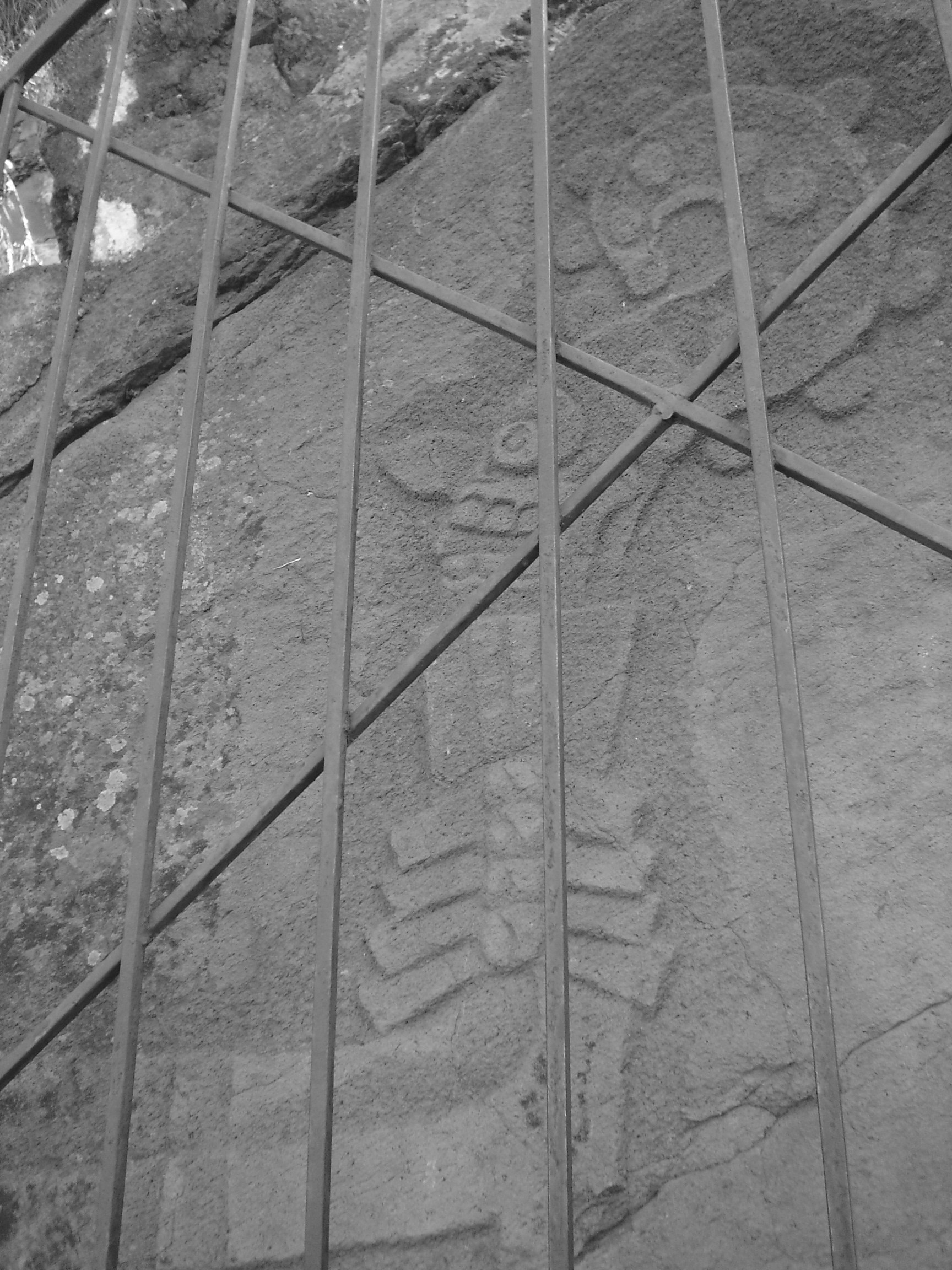 Cuahilama petroglyph1